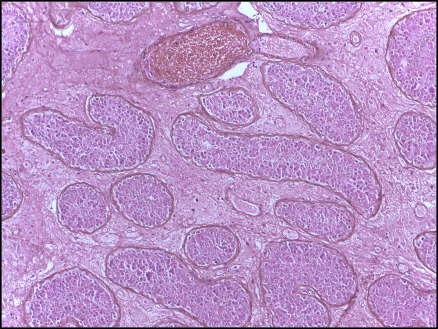 Testicular parenchyma showing coagulative necrosis of seminiferous tubules with preserved cellular outlines and loss of nuclei. [H&E stain 20X]